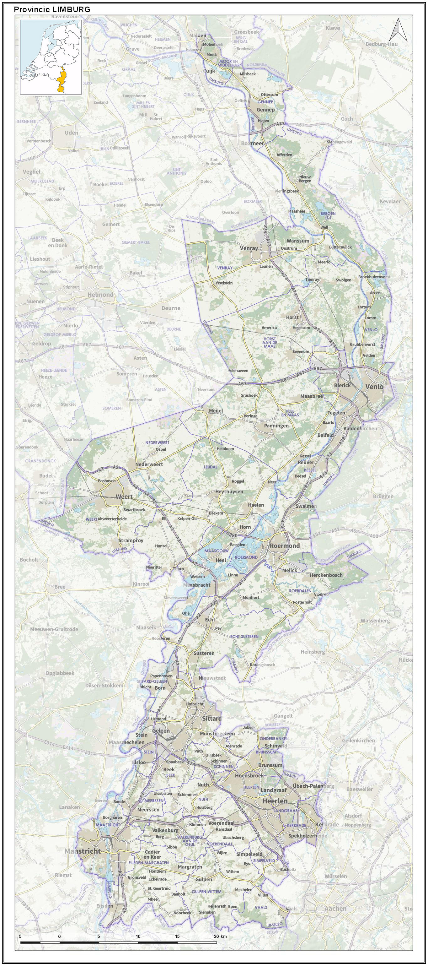 Toographic overview map of the Dutch Province of Limburg as of 2018. Compiled by Jan-Willem van Aalst using Dutch Governmental open data (CC-BY Kadaster) and OpenStreetMap data (CC-BY OpenStreetMap contributors).